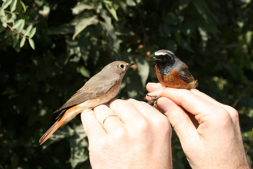 Female (left) and male (right) redstart (Phoenicurus phoenicurus), Israel